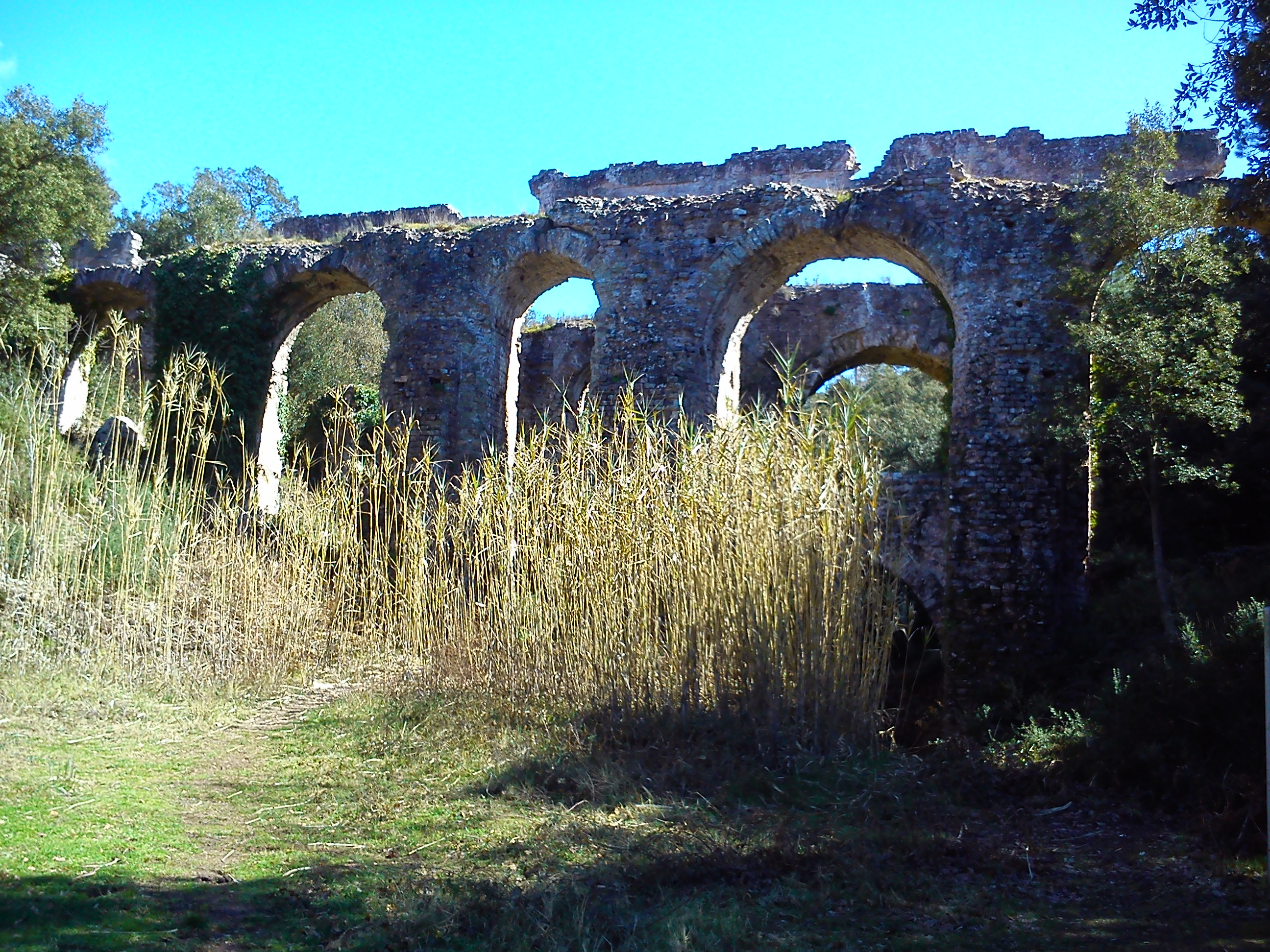 Senequier Double Bridge